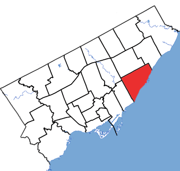 Scarborough Southwest in relation to the other Toronto ridings (2015 boundaries)